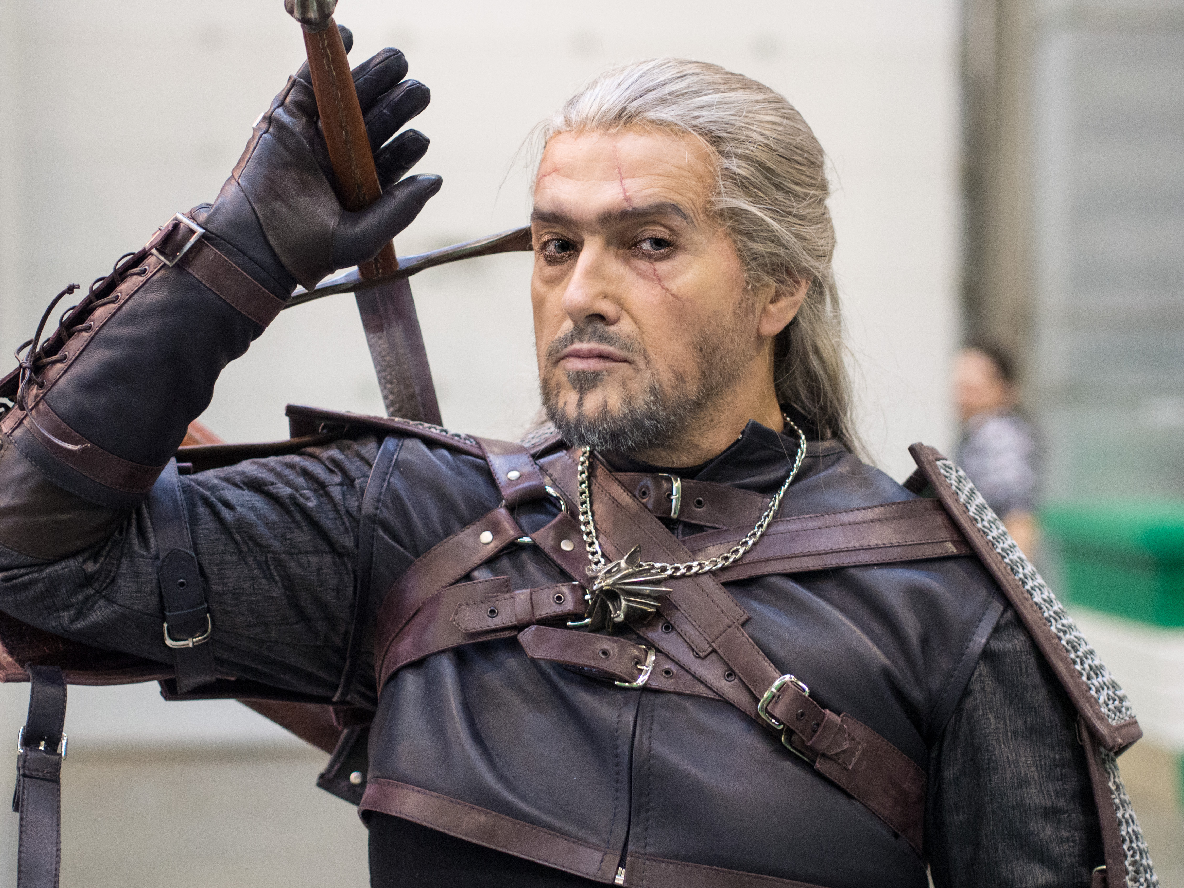 Russian gaming expo